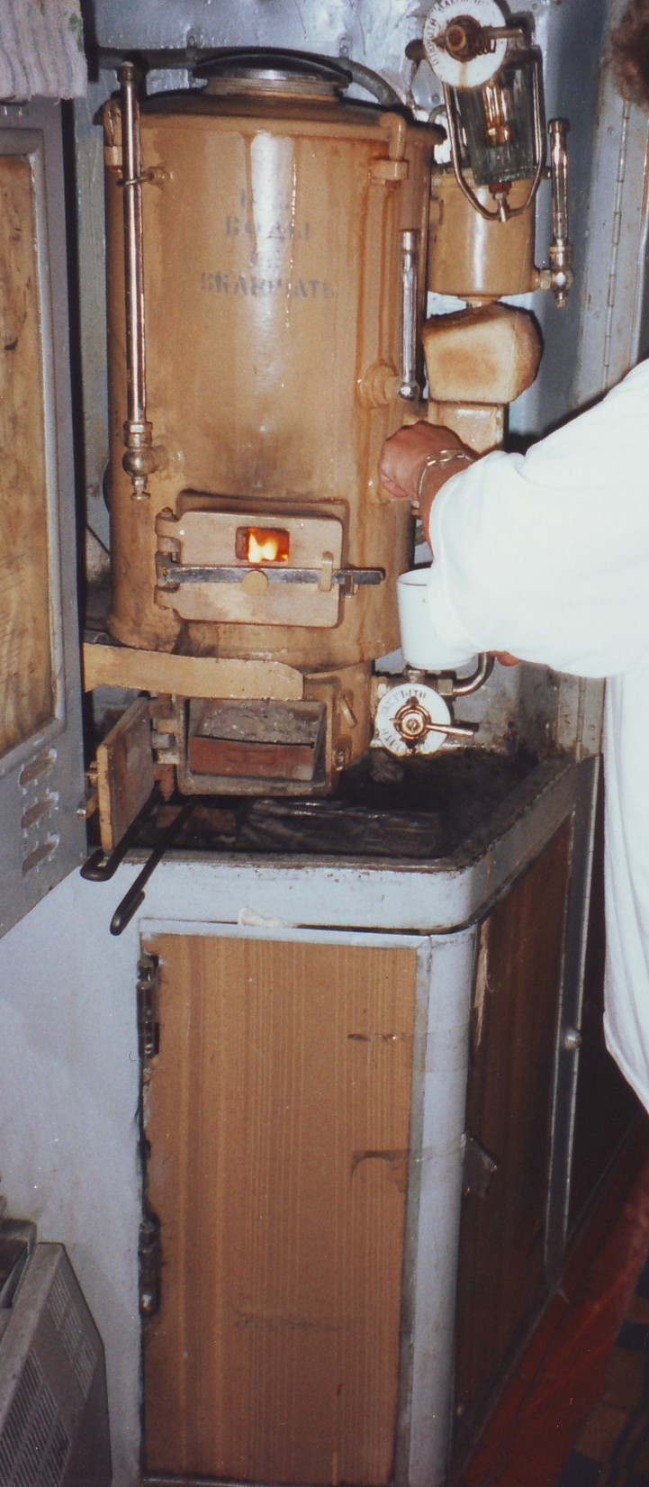 Samovar heated with coal in the train at the Trans-Siberian railway.